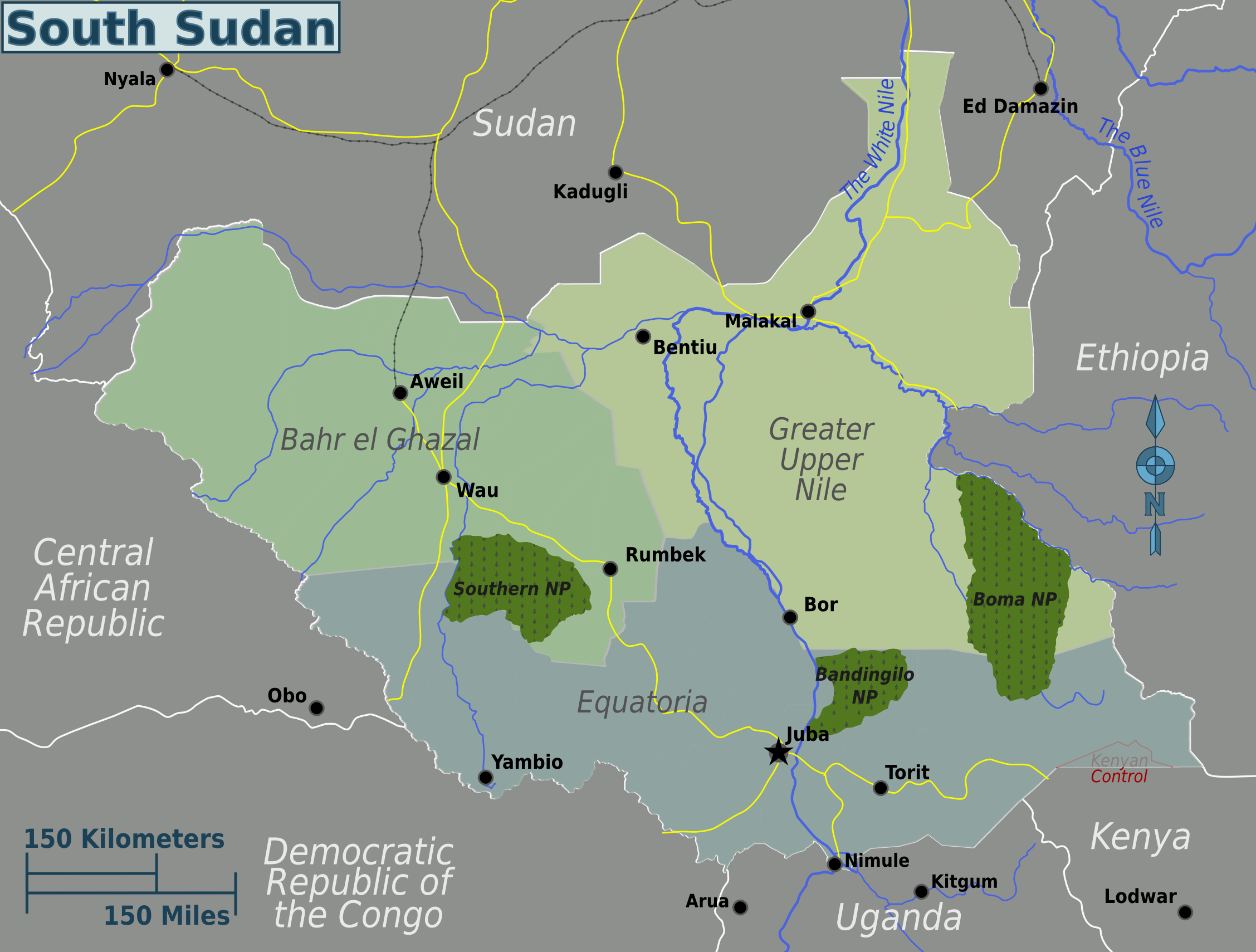 South Sudan regions map. English version, South Sudan Map of: South Sudan¤.